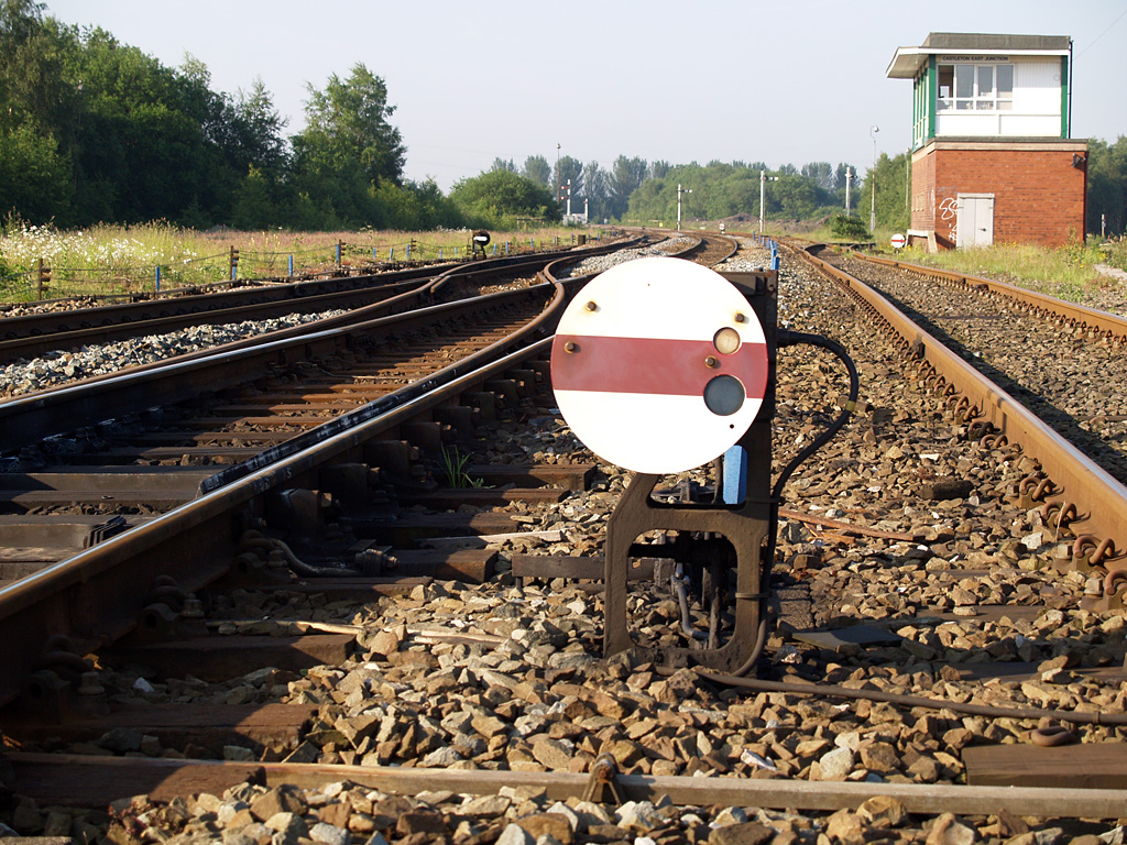 Castleton East Junction signal box 49 signal (Set Back Down Main To Up Main Or Down Fast Branch). Sunday 8th June 2008